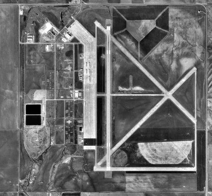 USGS digital orthophoto of Frederick Regional Airport in Frederick, Oklahoma, United States